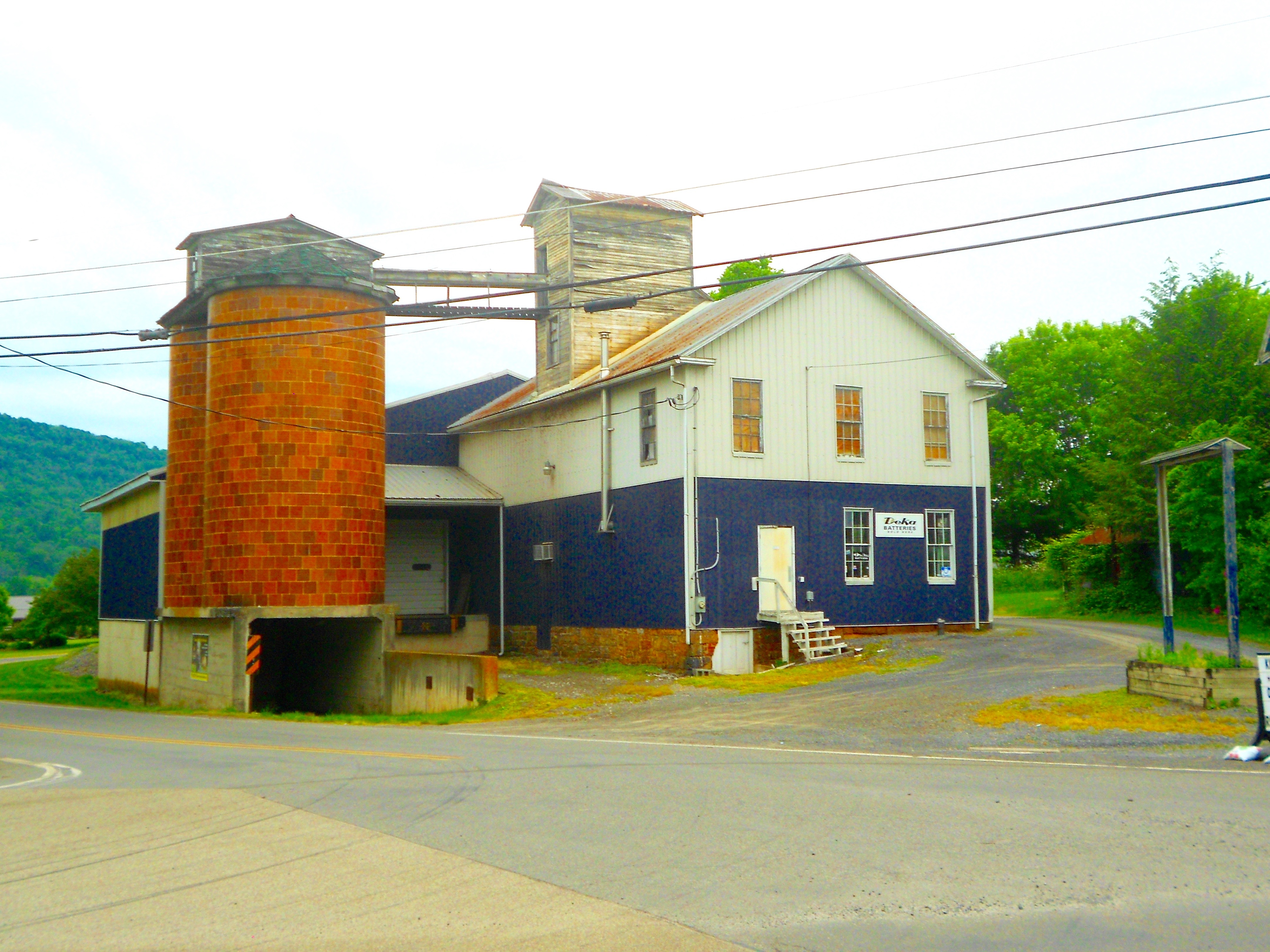 Mill in Mattawana, Miffflin County, Pennsylvania